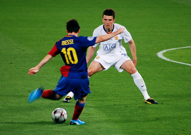 Lionel Messi shoots from just outside the Manchester United penalty area during the 2009 UEFA Champions League Final